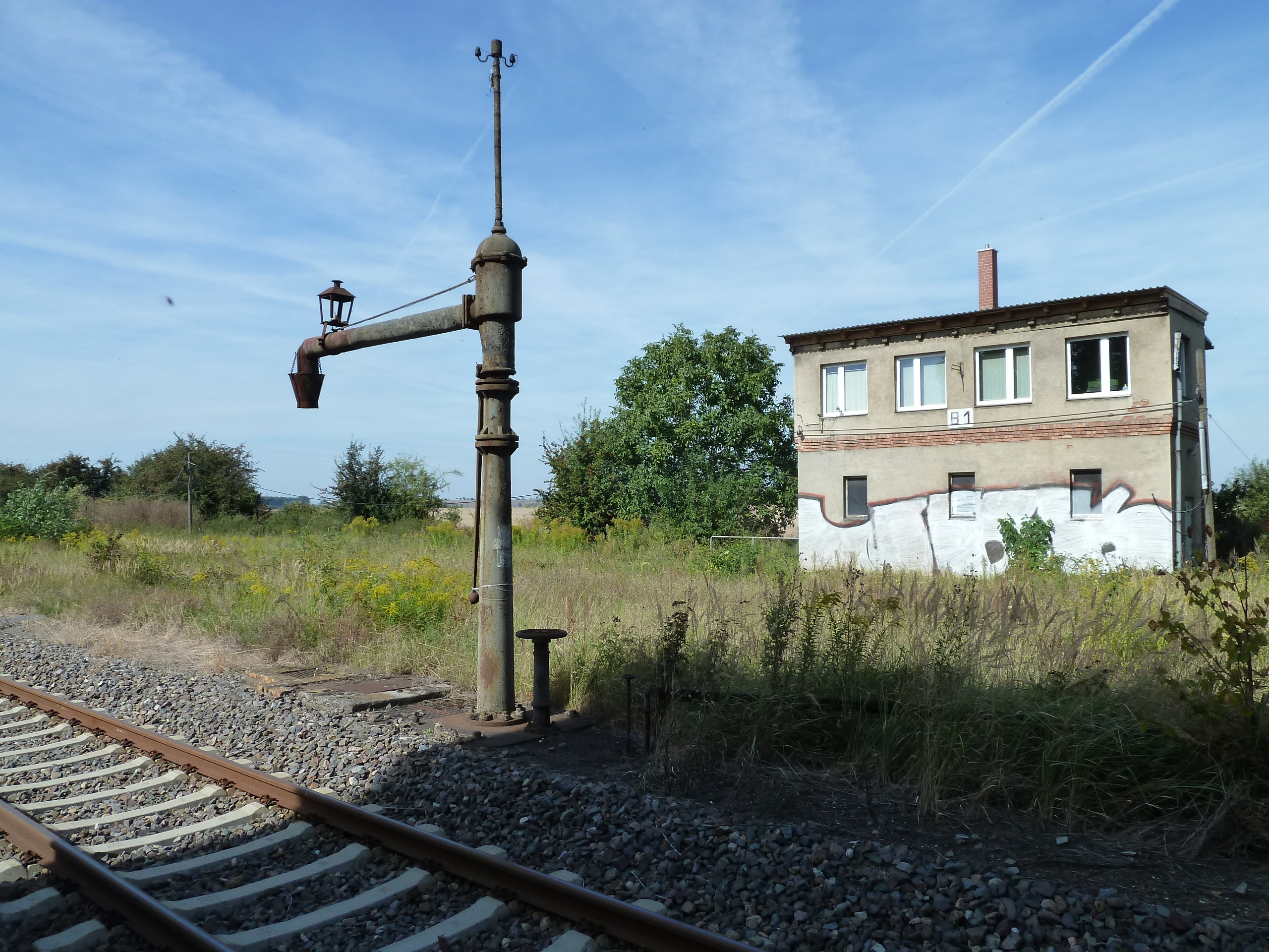 Train station Calbe (Saale) West, water station